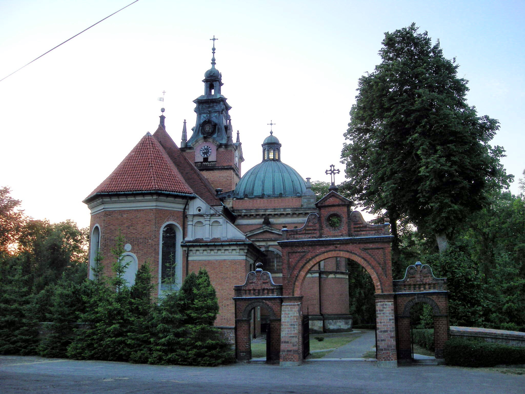 Saint Catherine of Alexandria church in Smogulec, Poland.